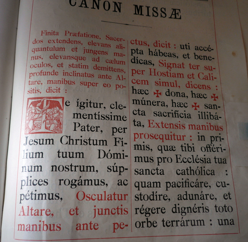 Latin text with accent marks